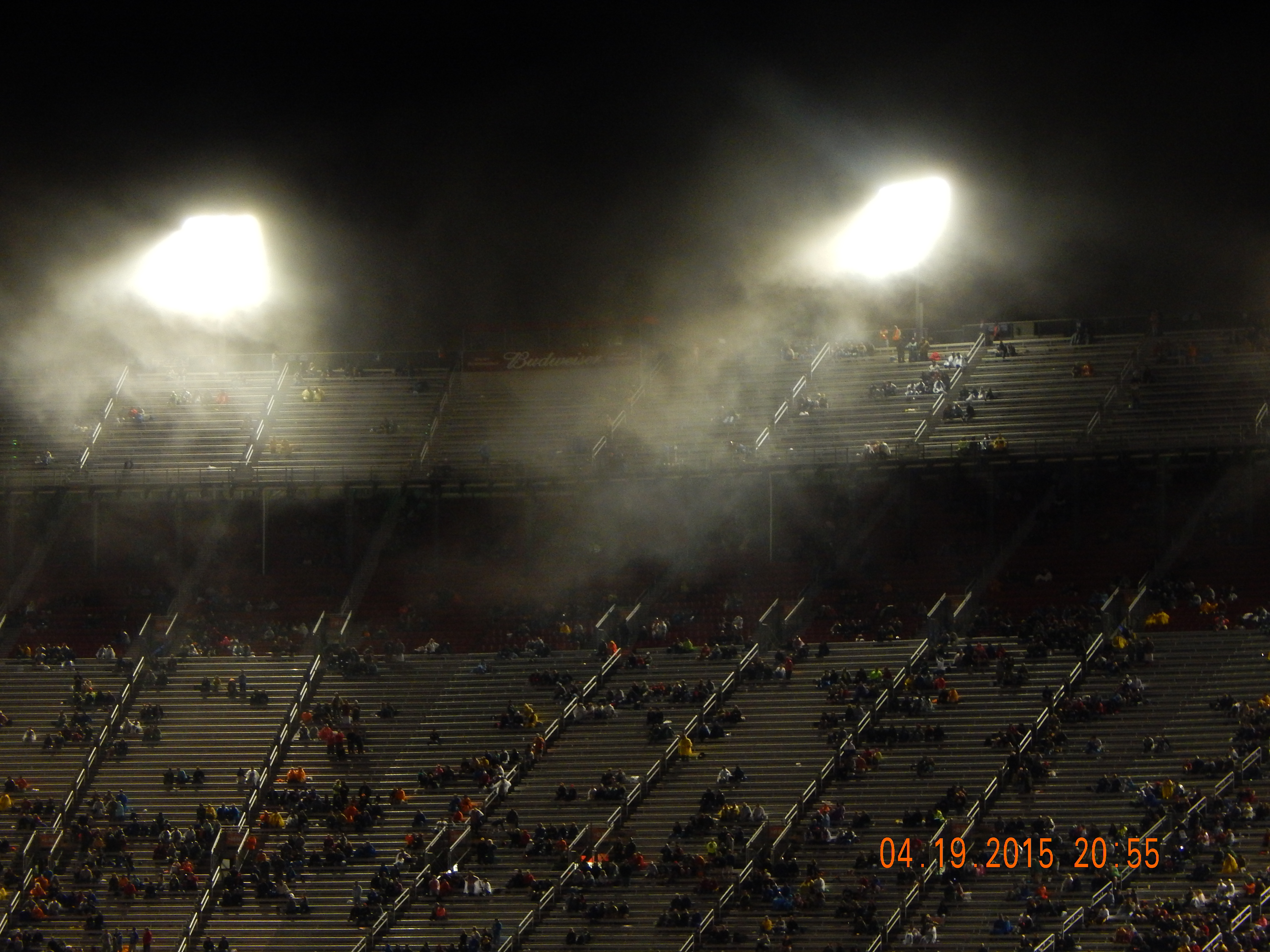 Fog descends on Bristol Motor Speedway in the closing laps of the 2015 Food City 500.